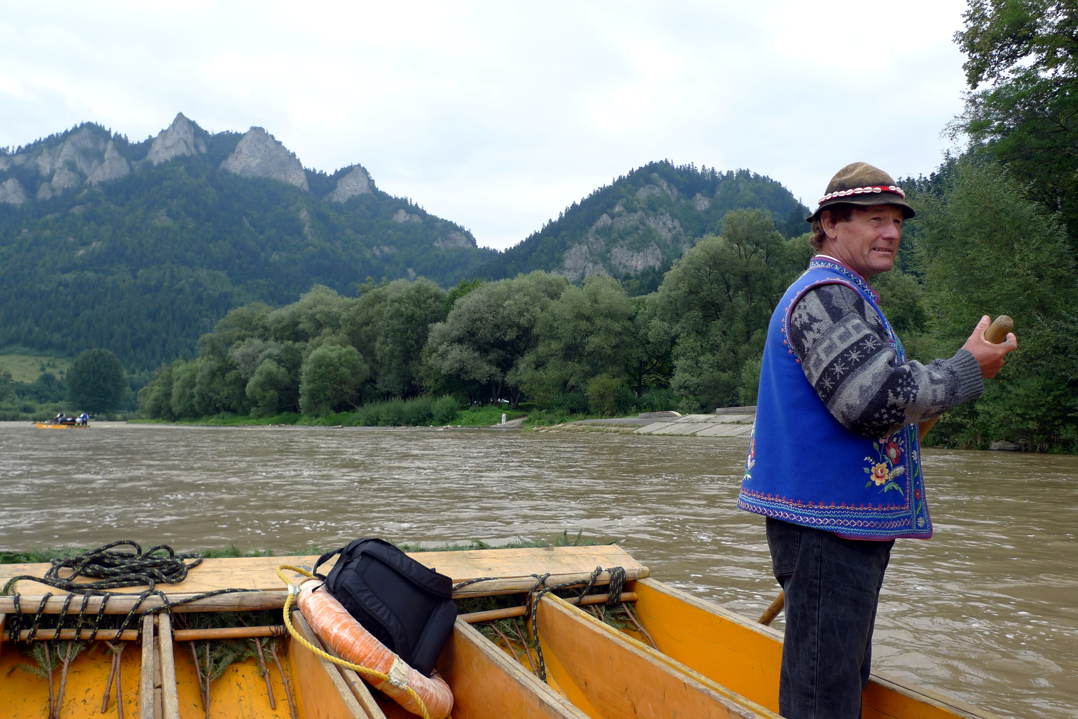 Rafting on Dunajec river in Červený Kláštor, Slovakia